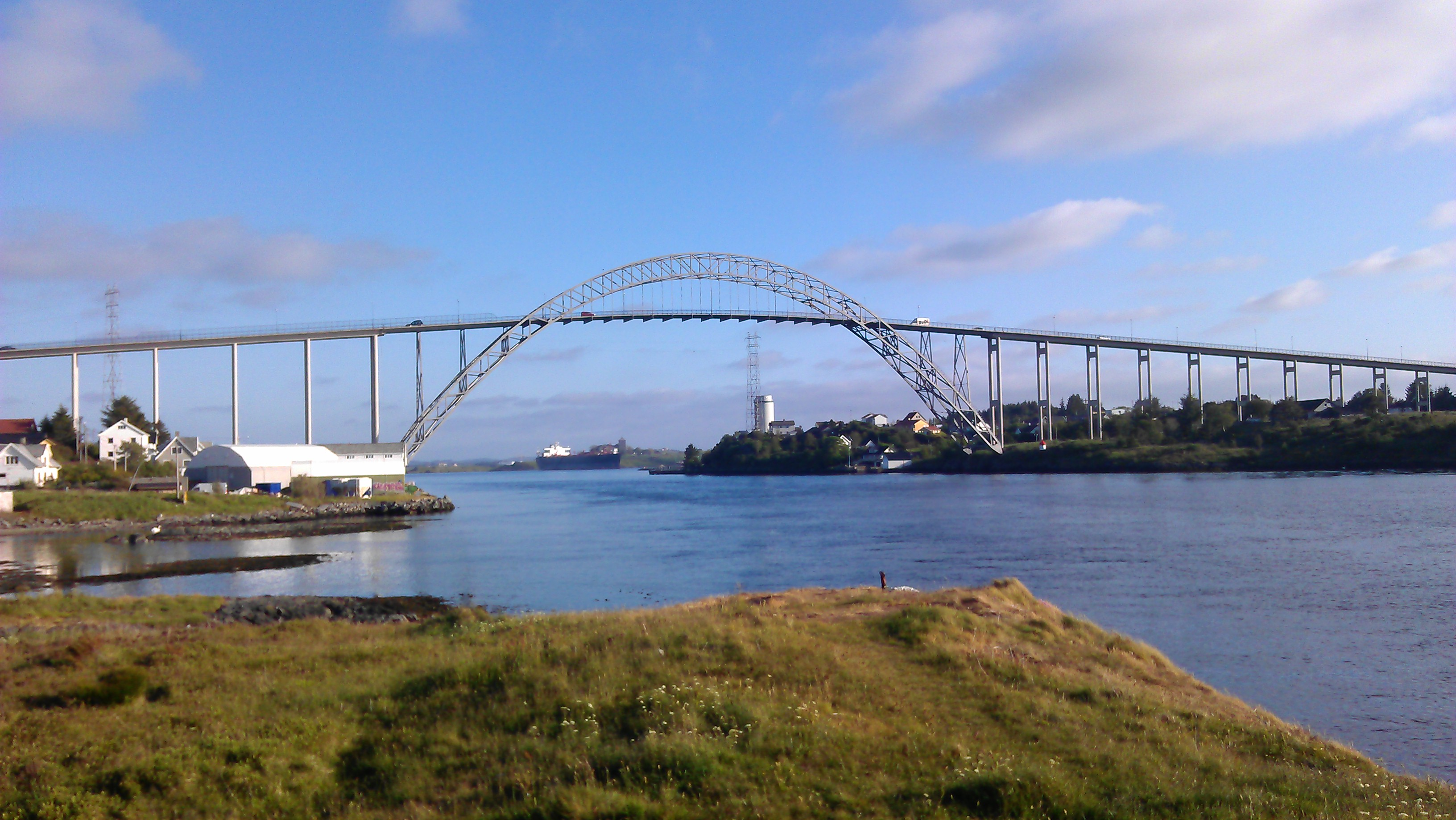 Karmsund Bridge as seen from Norheimsvågen, just north of the bridge